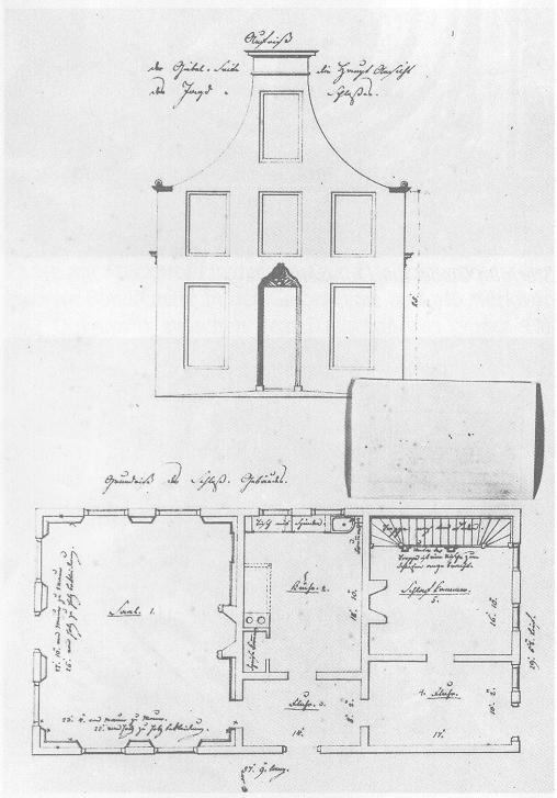 Elevation and ground-plan, Hunting lodge Stern, Potsdam, Germany